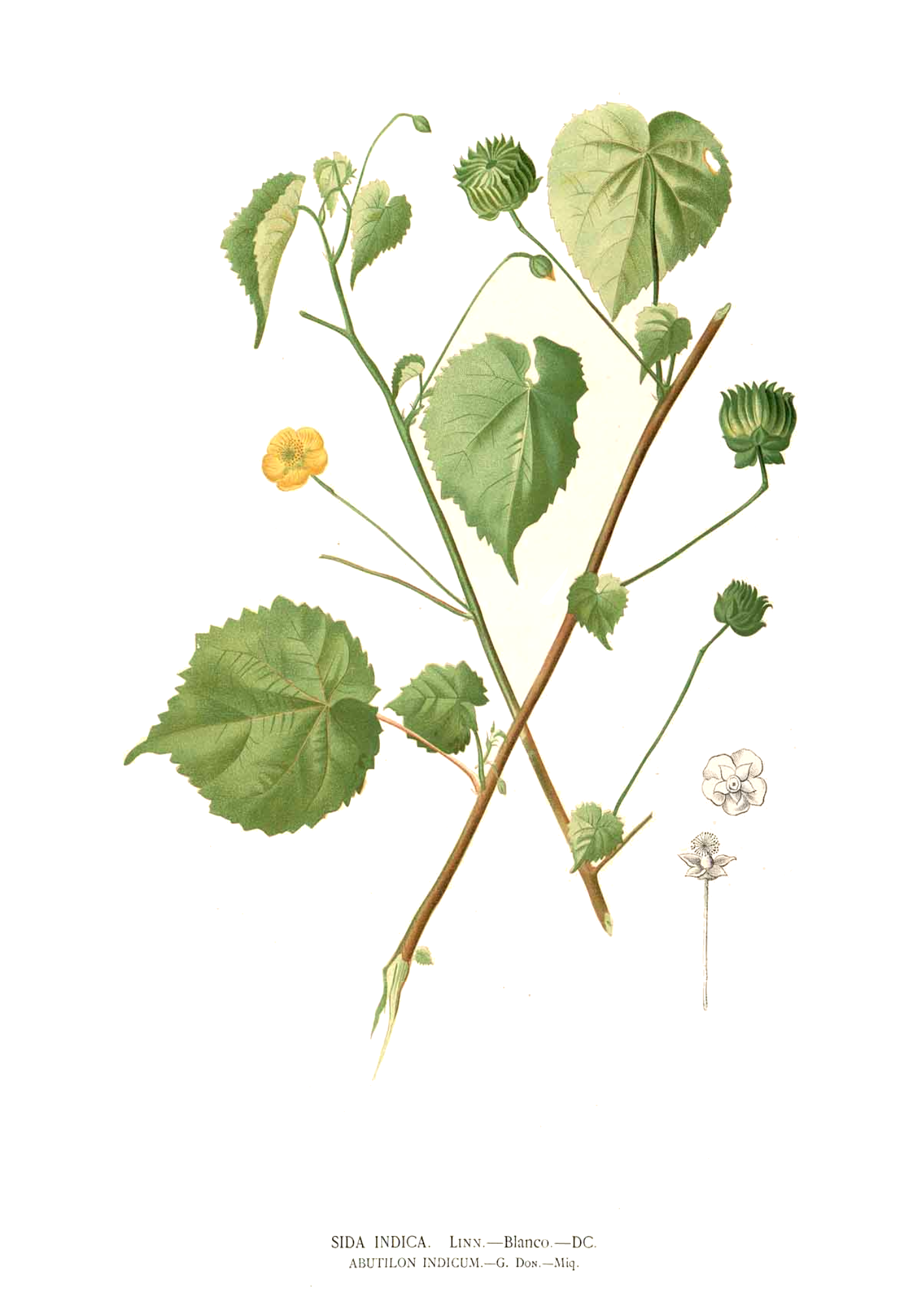 Abutilon indicum Plate from book